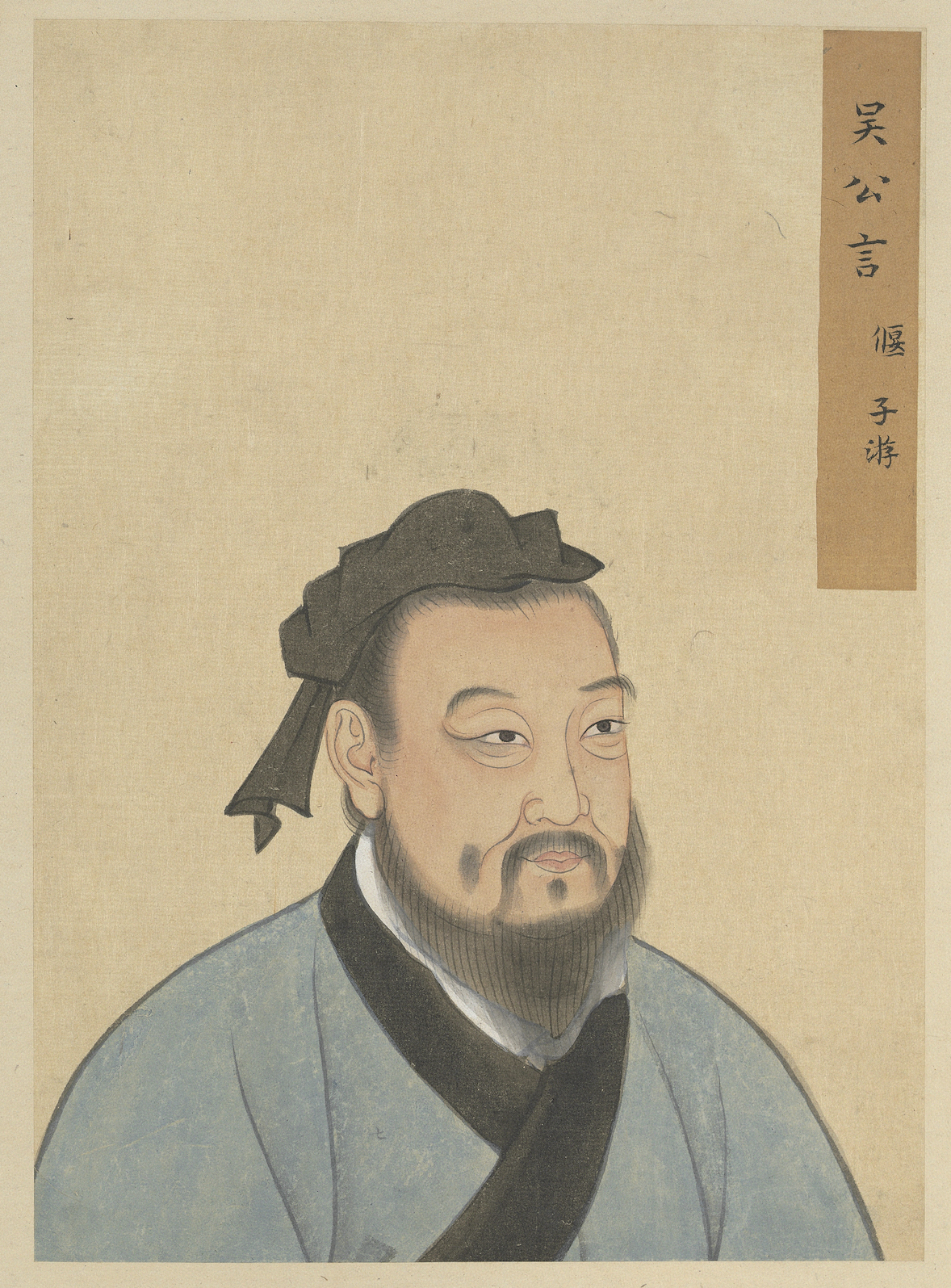 This depicts Yan Yan (言偃), styled Ziyou (子游).